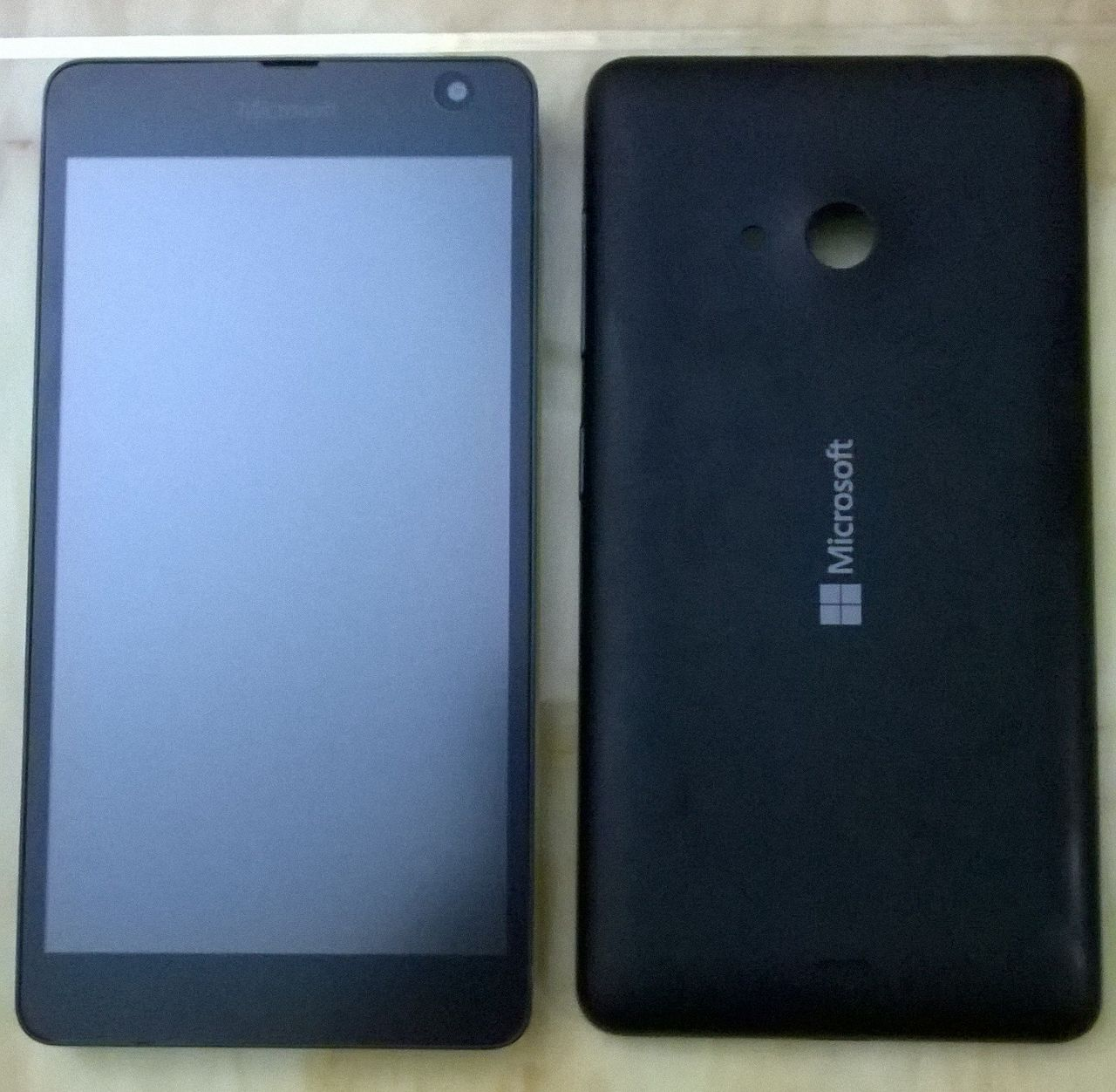 The Microsoft Lumia 535.